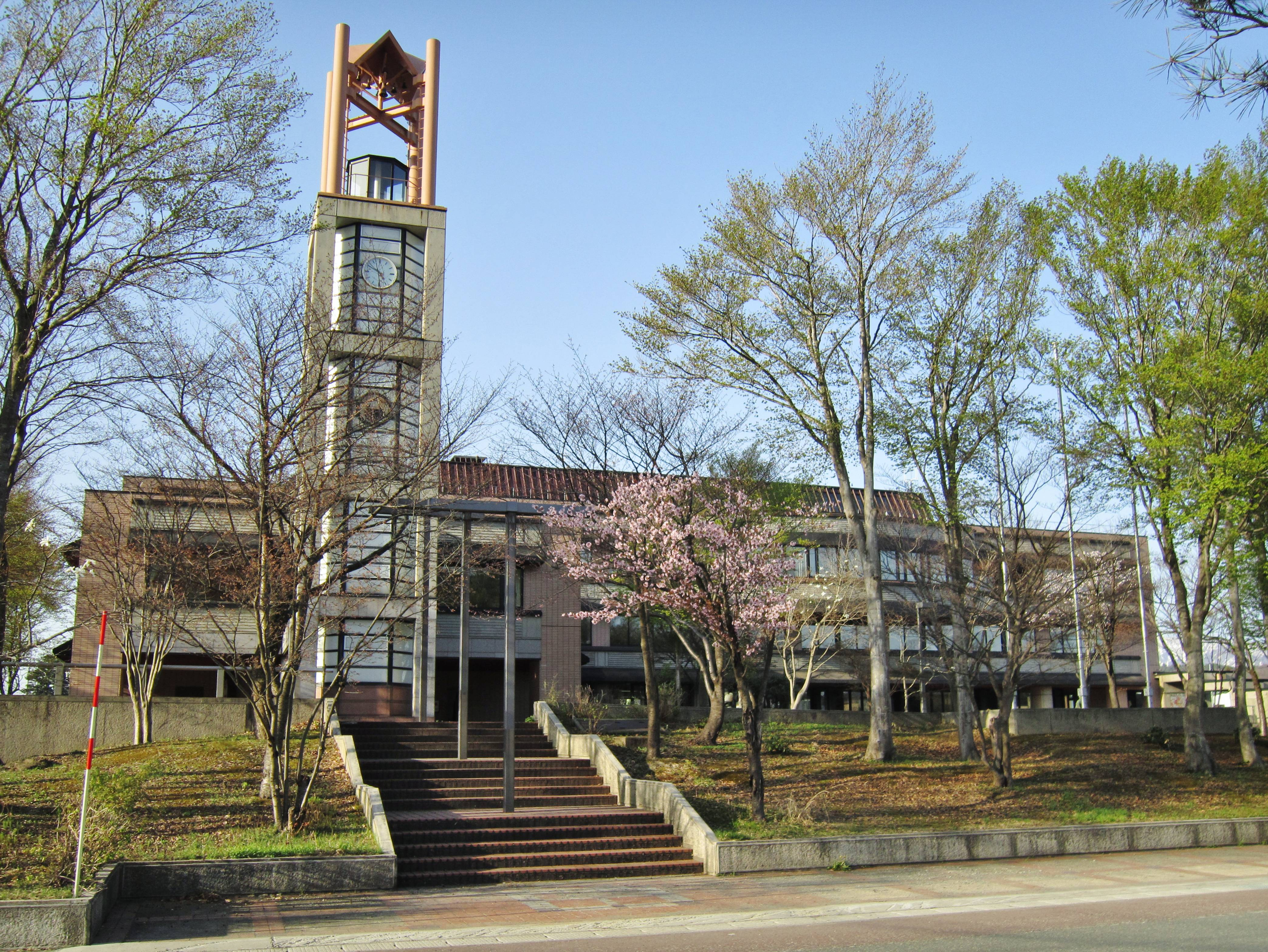 Oguni town office.